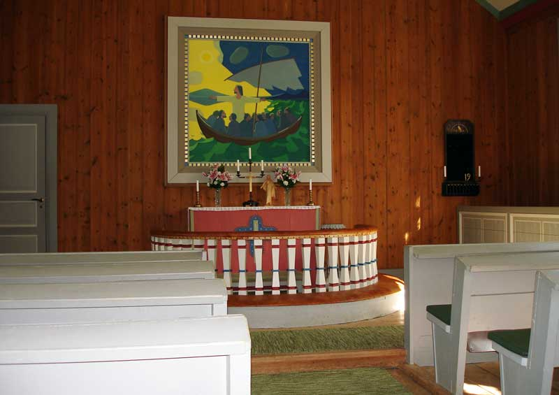 Ankarede chapel.